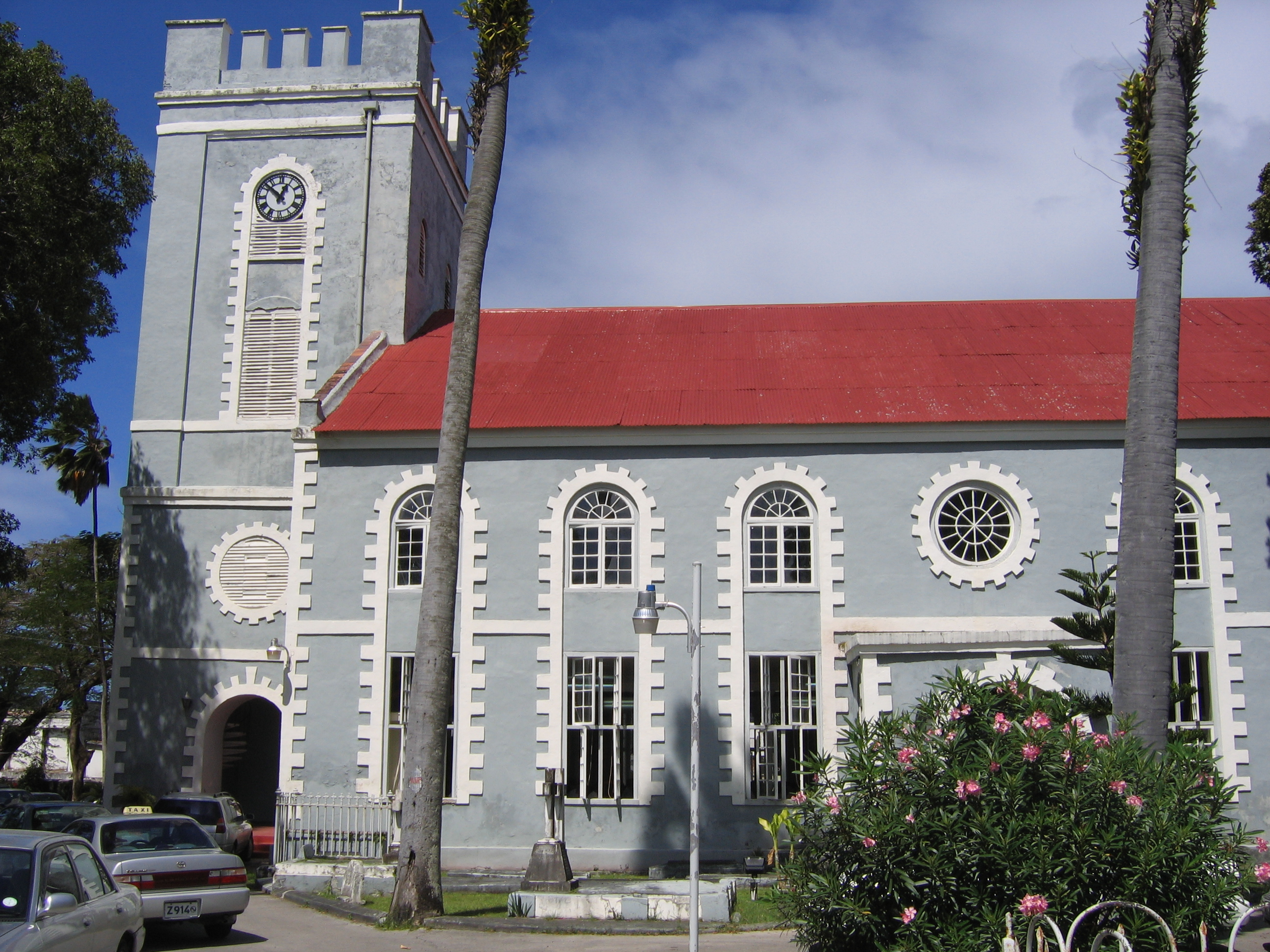 St. Mary's (Anglican) Church in Bridgetown, Saint Michael, Barbados.